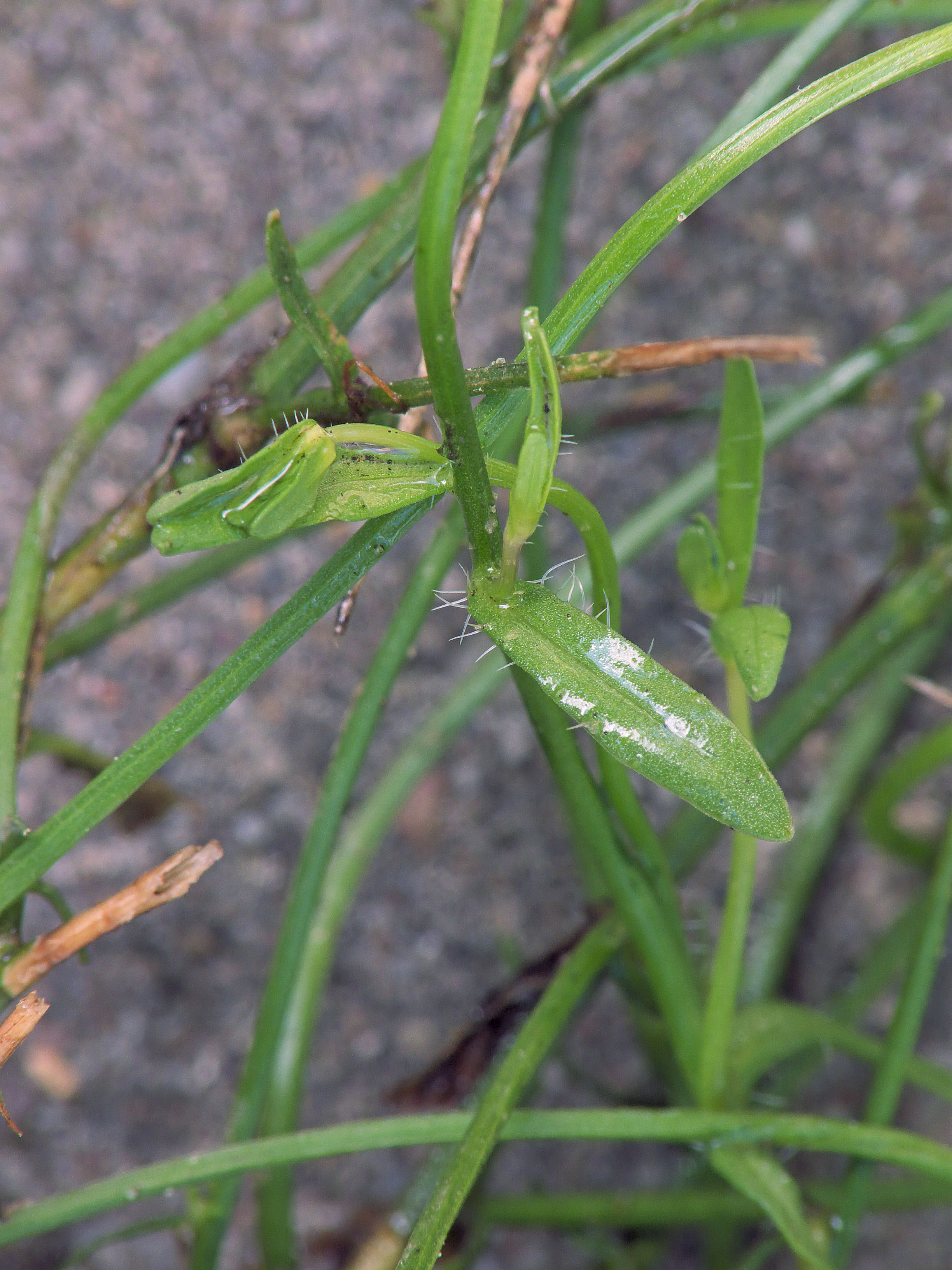 Jasione montana stem leaf